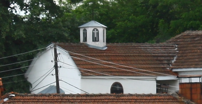 St.Demetrious Church in Vrapčište, Macedonia